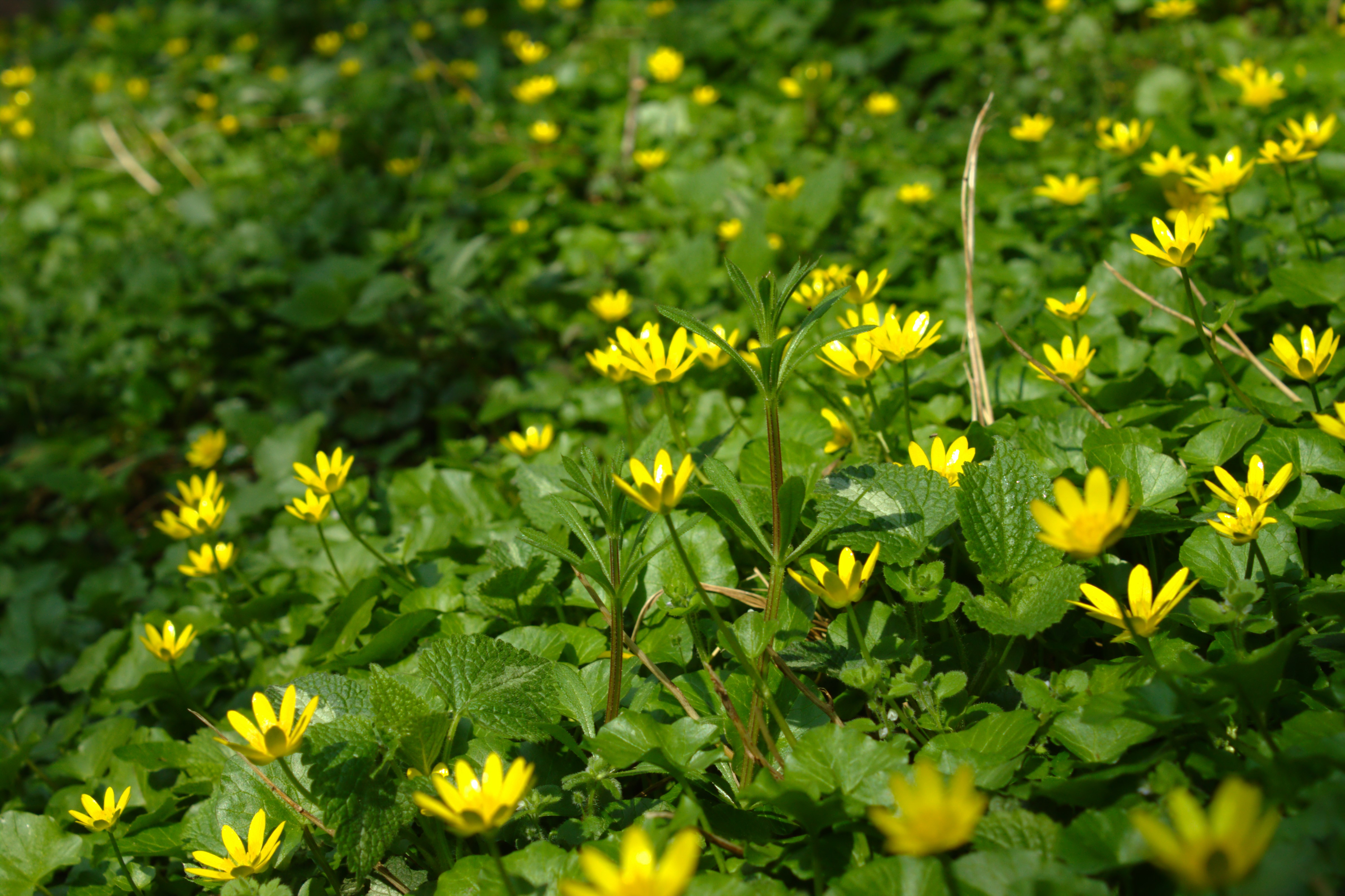 Yellow flowers on the southern edge of the Dvorska bašta park in the town of Sremski Karlovci, Serbia